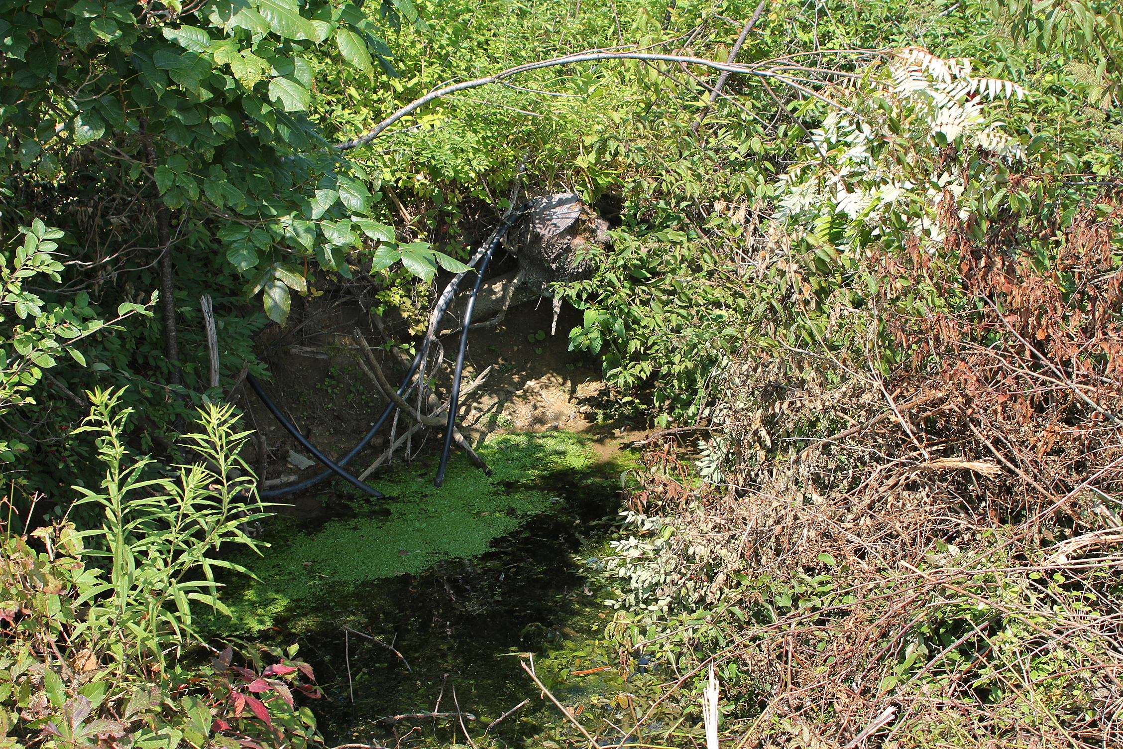 Bee Sellers Hollow, a tributary of Fishing Creek near Stillwater, Pennsylvania